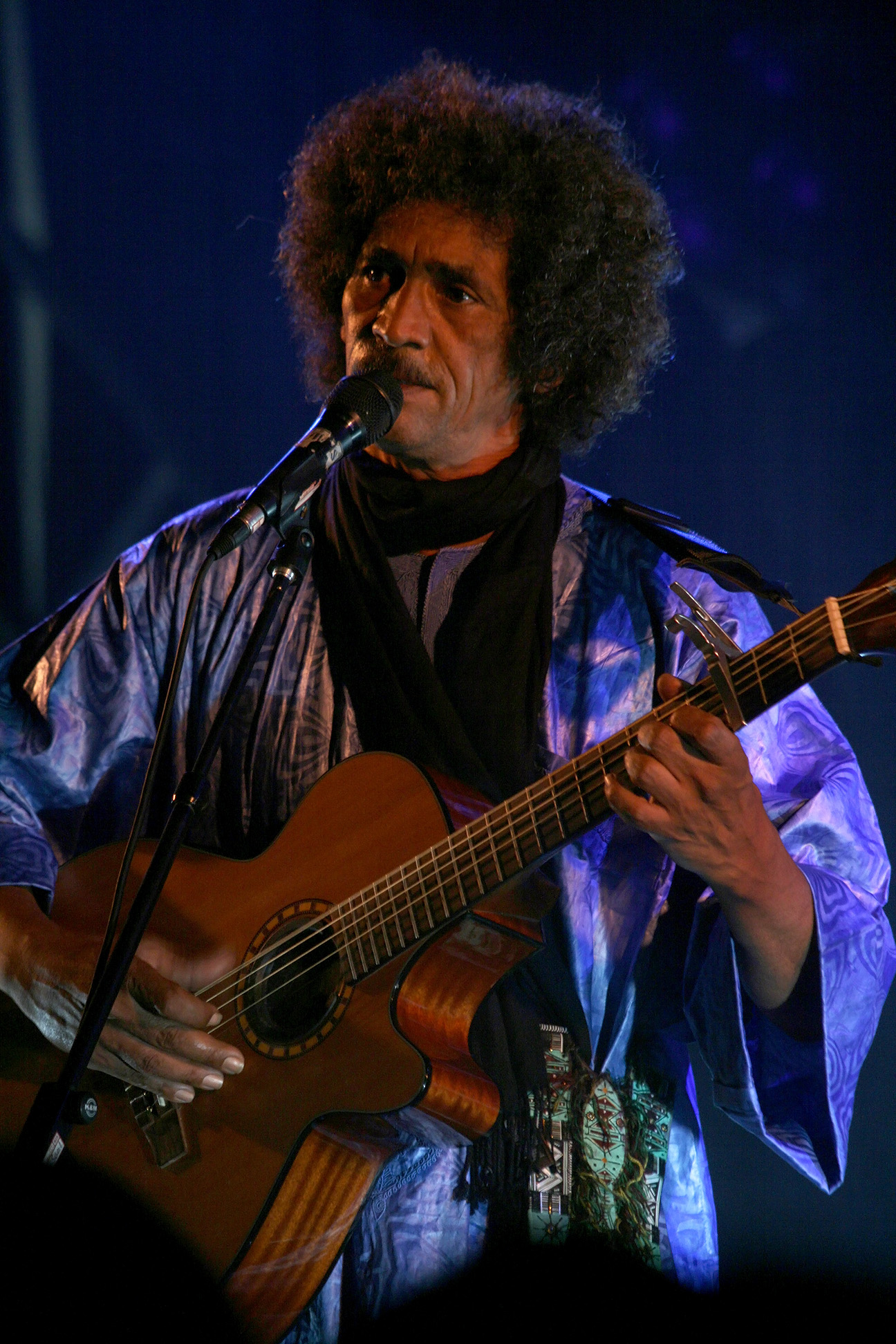 Tinariwen - concert at the cultural center WUK in Vienna.